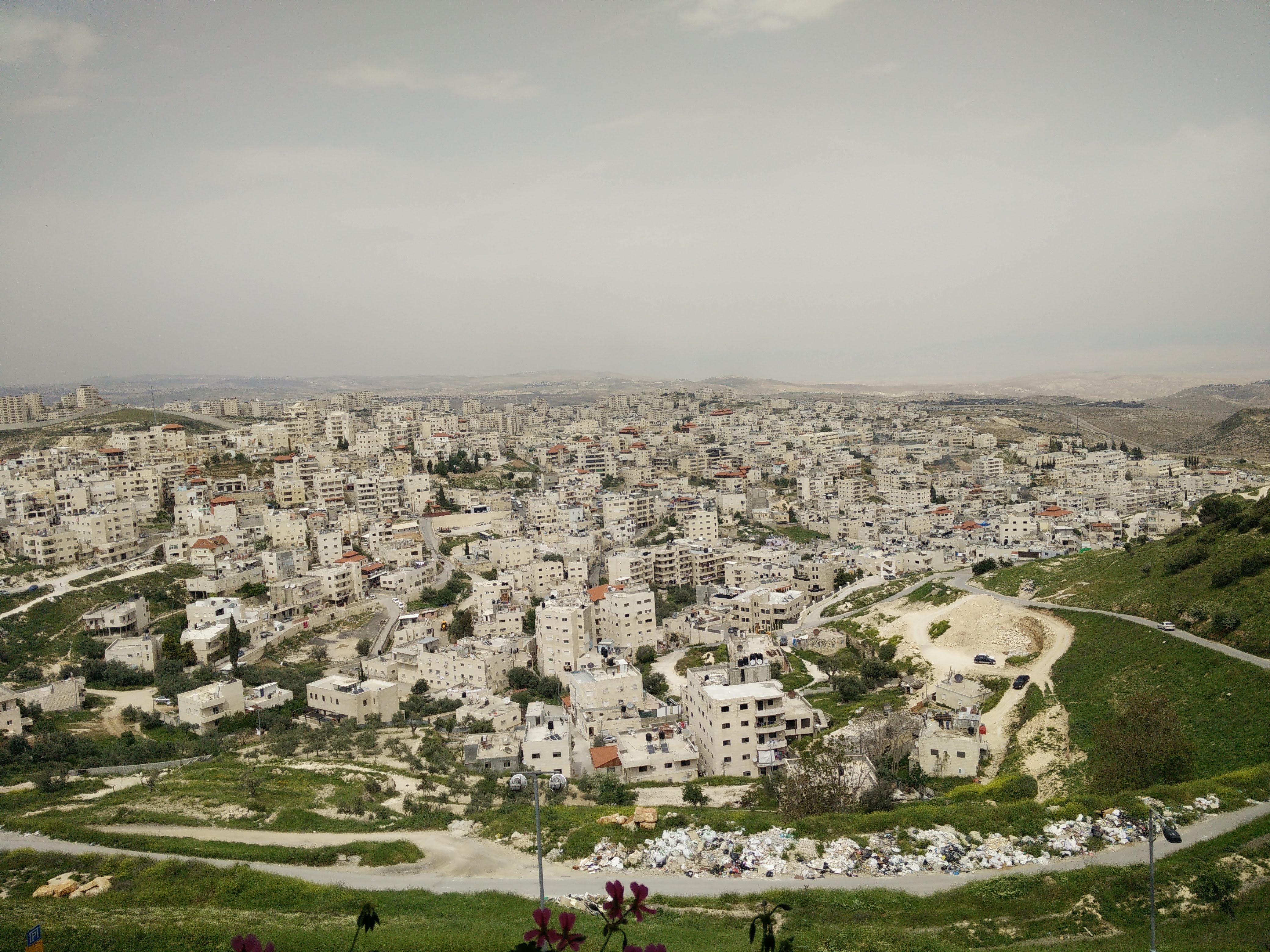 Isawiya from Hebrew University of Jerusalem at mount scopus